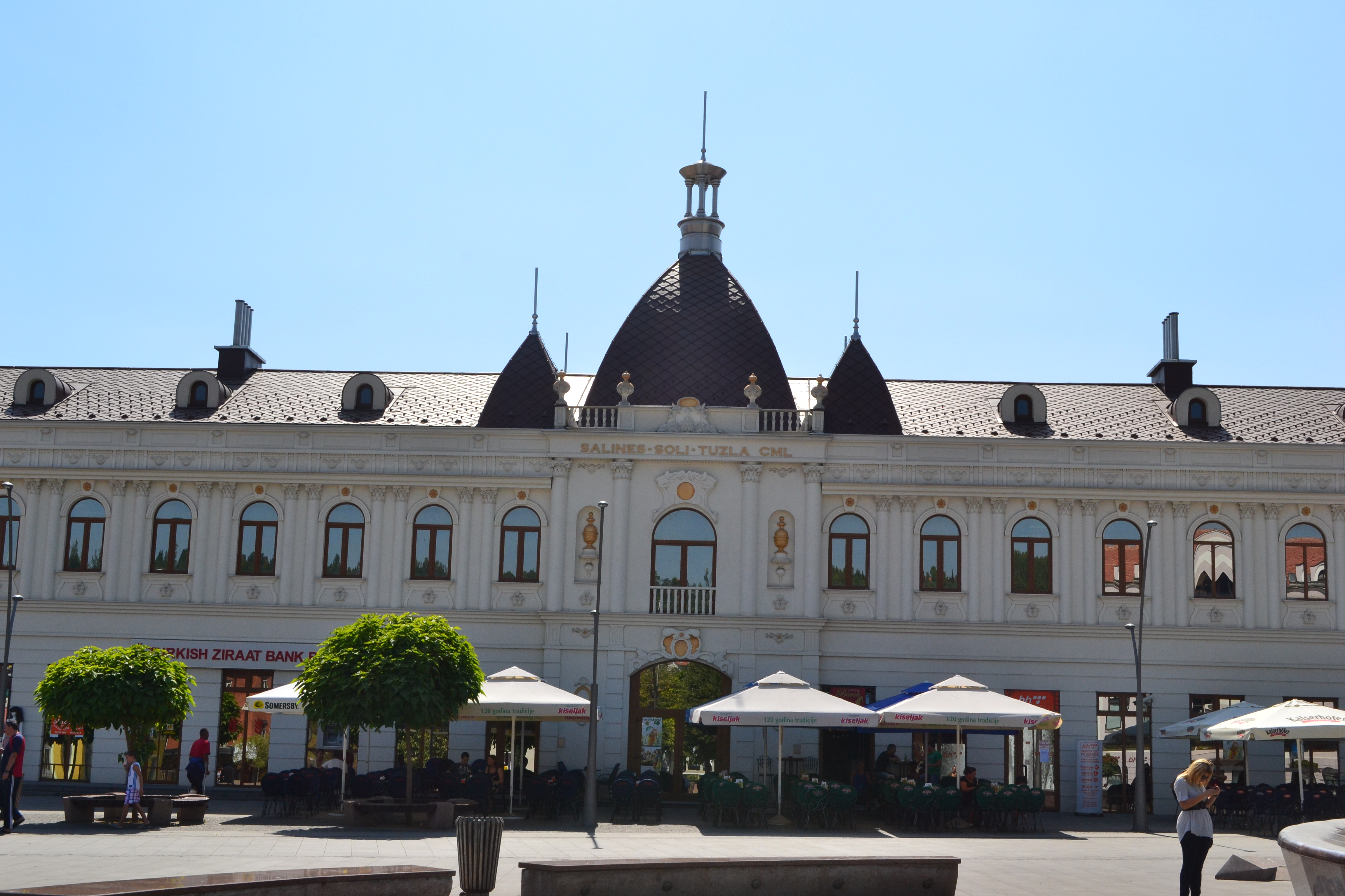 Trg slobode - (en. "Freedom square") (Tuzla)